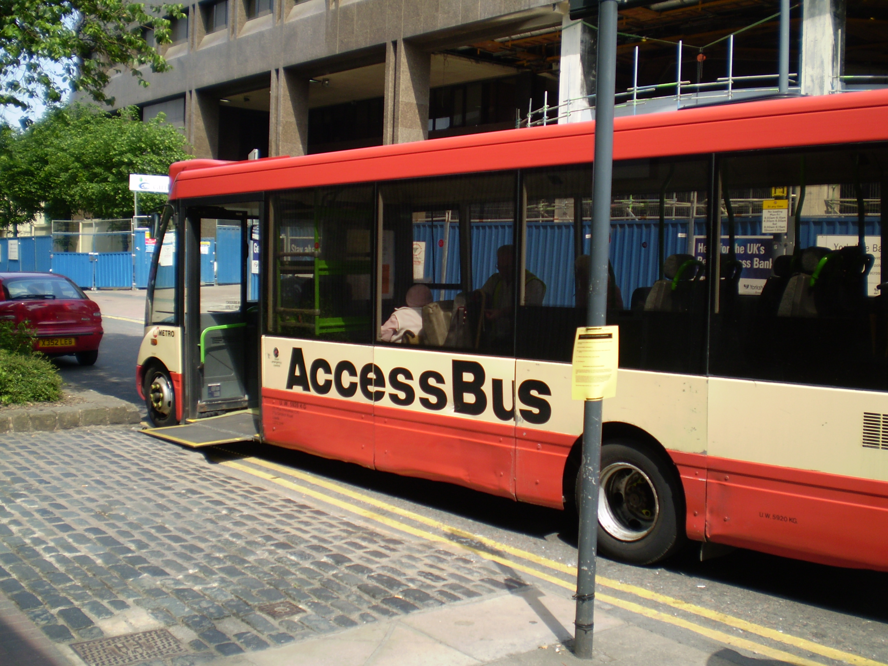 CT Plus (Yorkshire) bus 40865 (reg. X173 NWR), a 2000 Optare Solo M850 midibus. It's branded for the AccessBus dial-a-ride service provided through the West Yorkshire Passenger Transport Executive (Metro). It's pictured with its wheelchair ramp deployed, somewhere in Leeds. CT Plus is part of the HCT Group.